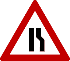 Diagram of road signs of Luxembourg